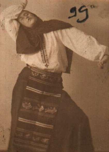 Maria Dimova